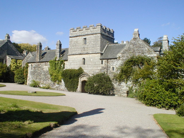 St. Dominick, Cotehele House. A superb National Trust property. From here you can walk right down through the gardens and onto the banks of the River Tamar at Cotehele Quay.